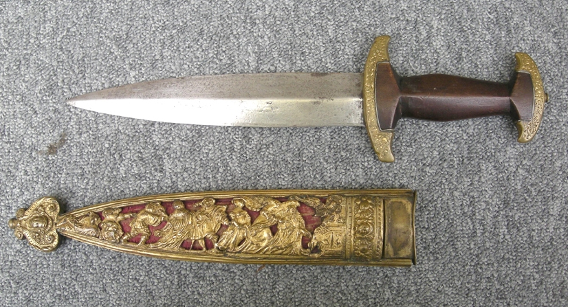 unidentified Swiss dagger of the "Holbein" type in the style of ca. 1570 (could also be a 19th-century reproduction in this style)